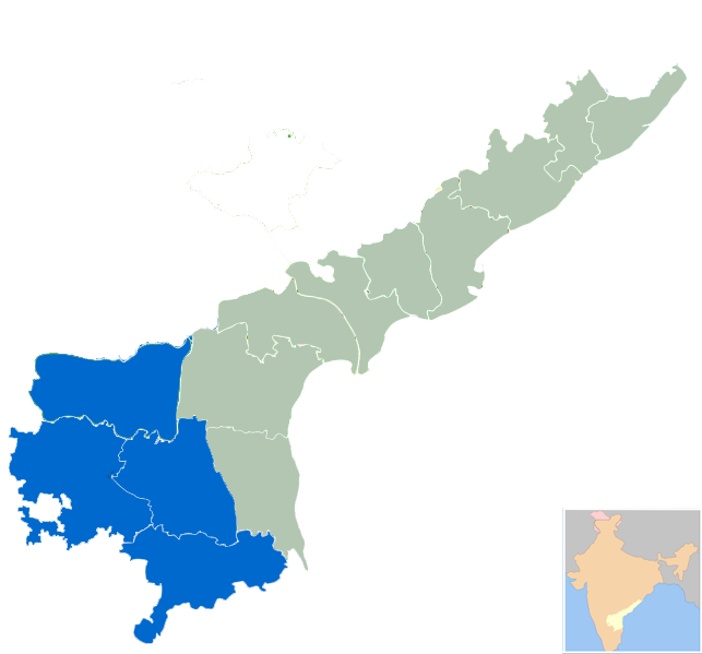 Rayalaseema in Andhra Pradesh (from June 2nd 2014)